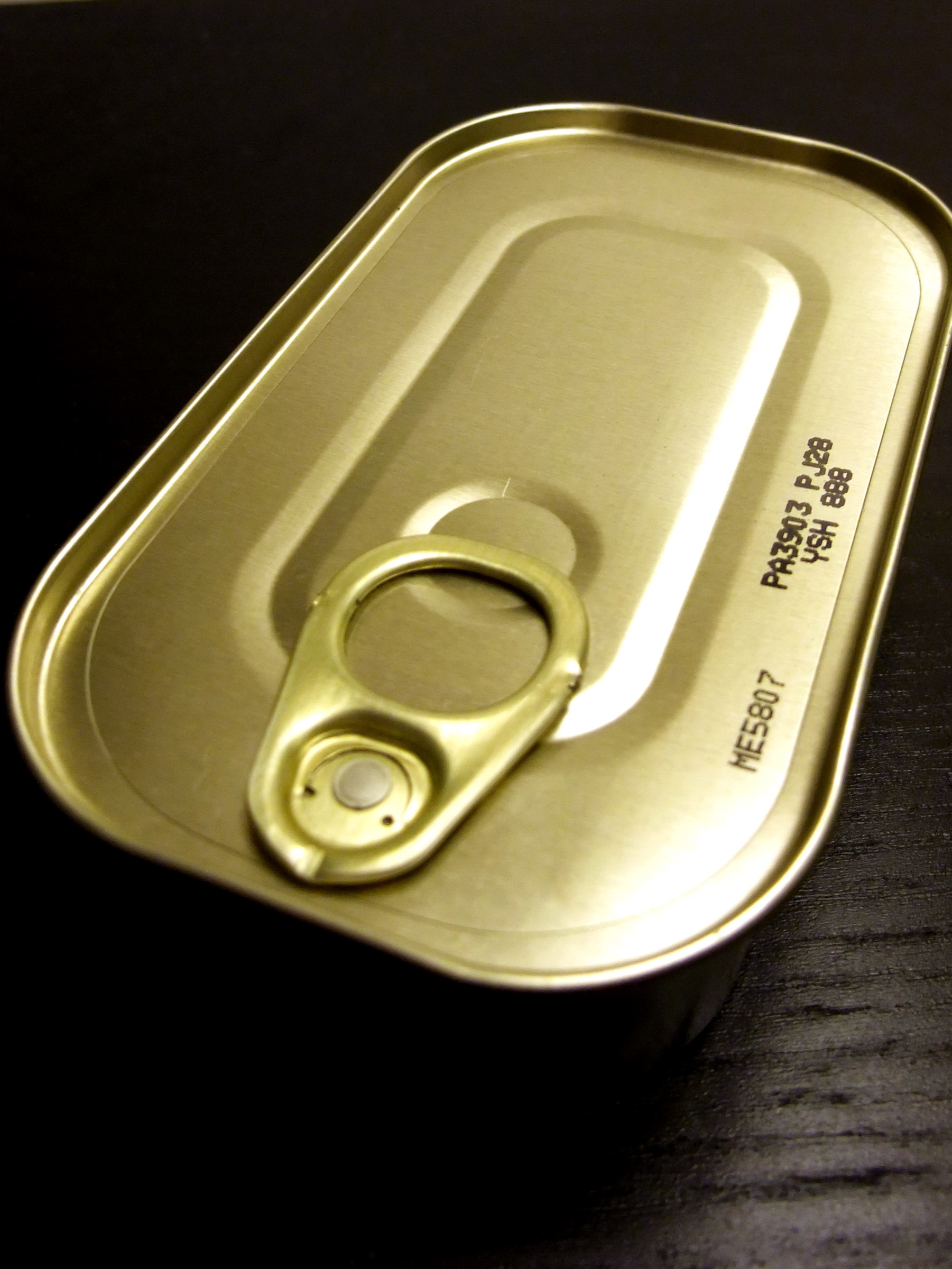 An unopened can of canned fish.